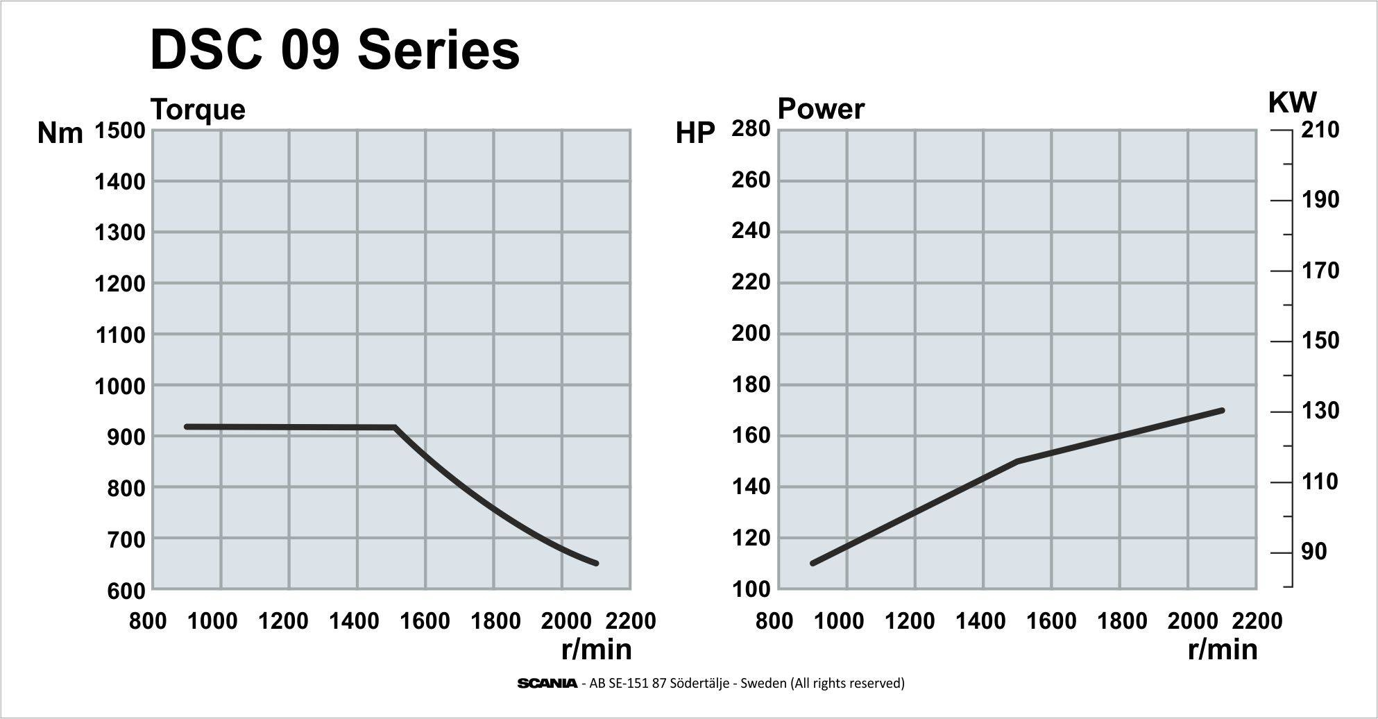 Engine Power